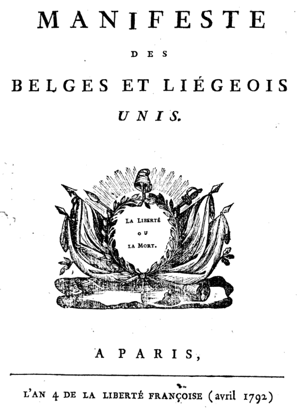 Manifest of the United Belgians and Liégeois, published on 23 April 1792 by the Committee of United Belgians and Liégeois in Paris. French language version.